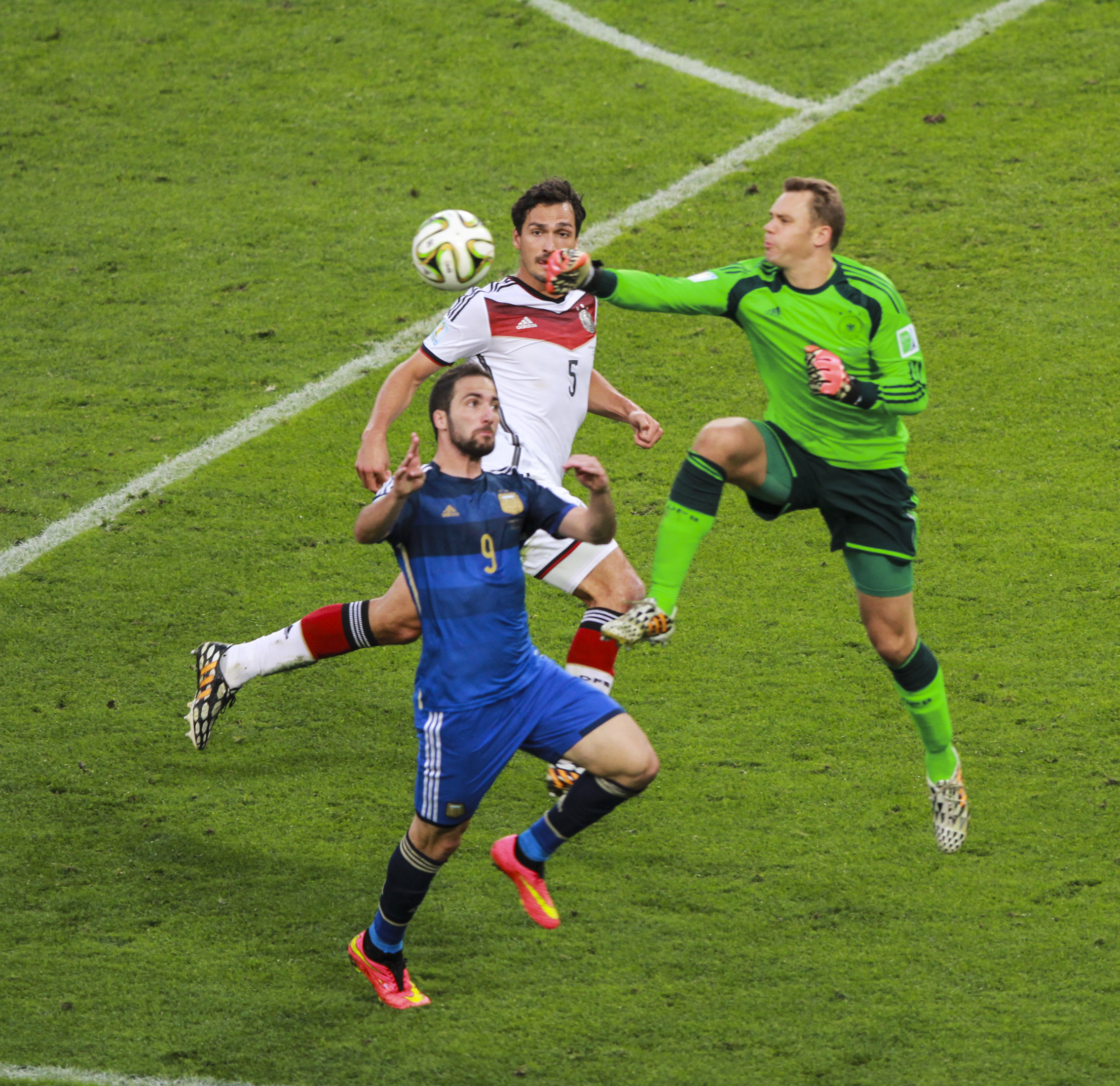 The final match of World Cup 2014 between Germany and Argentina 2014-07-13